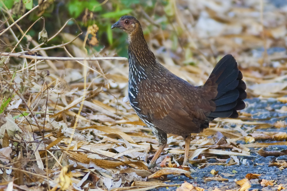 Female grey junglefowl in Thattekad, Kerala